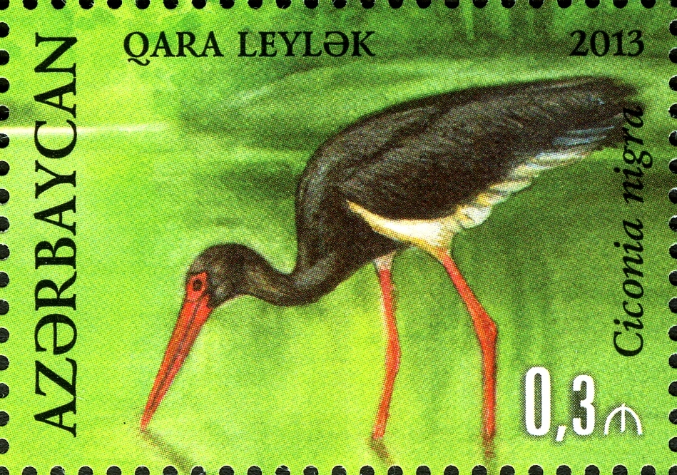 Hirkan National Park. N 1127 - 30 qapik. Black stork (Ciconia nigra)